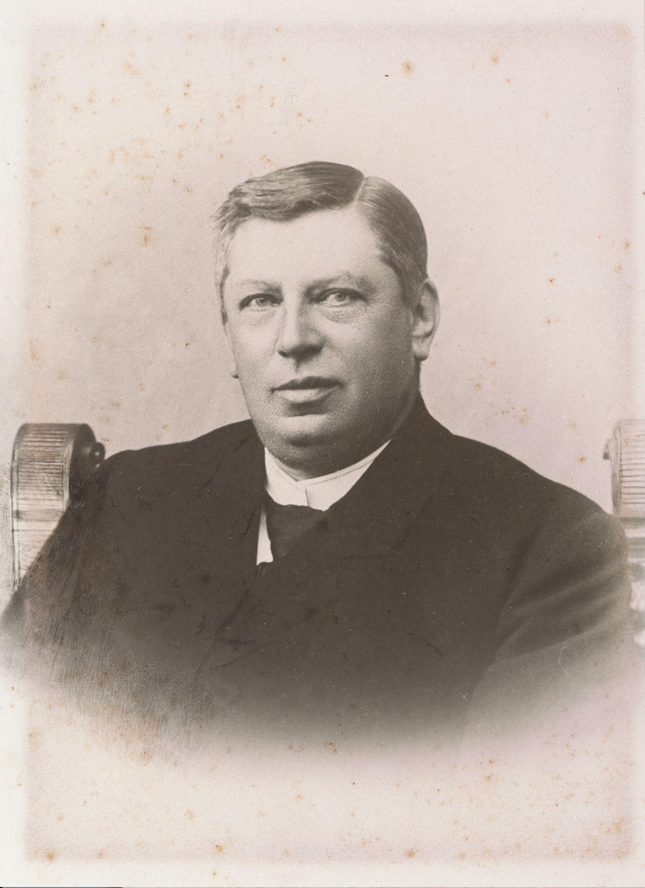 Dirk Alma, former mayor of Sneek